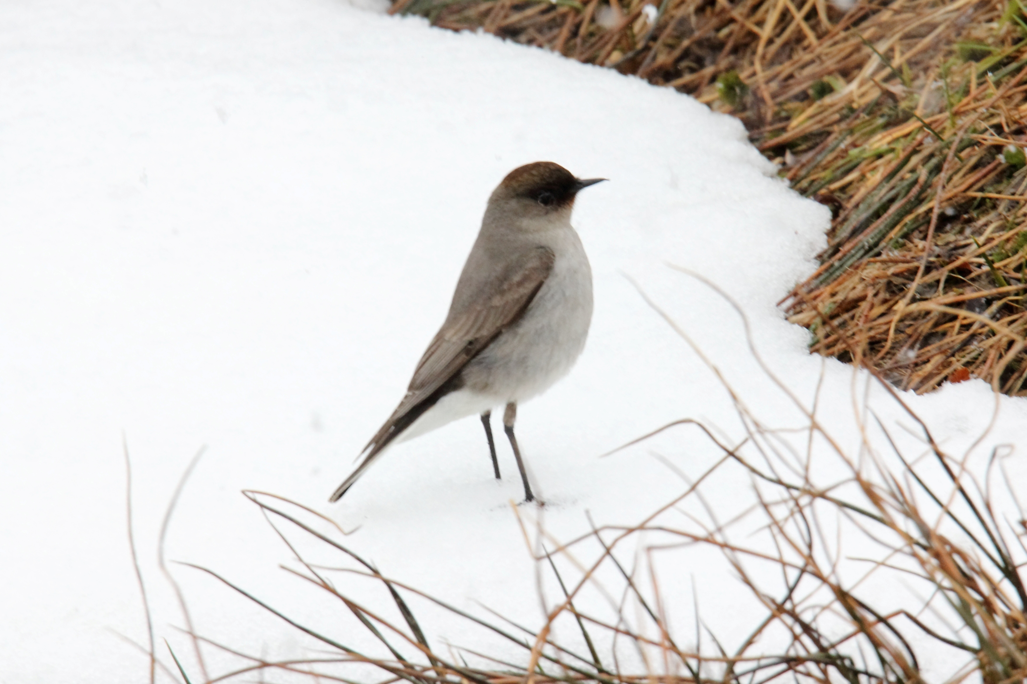 Dark-faced Ground Tyrant Muscisaxicola maclovianus, southern Argentina